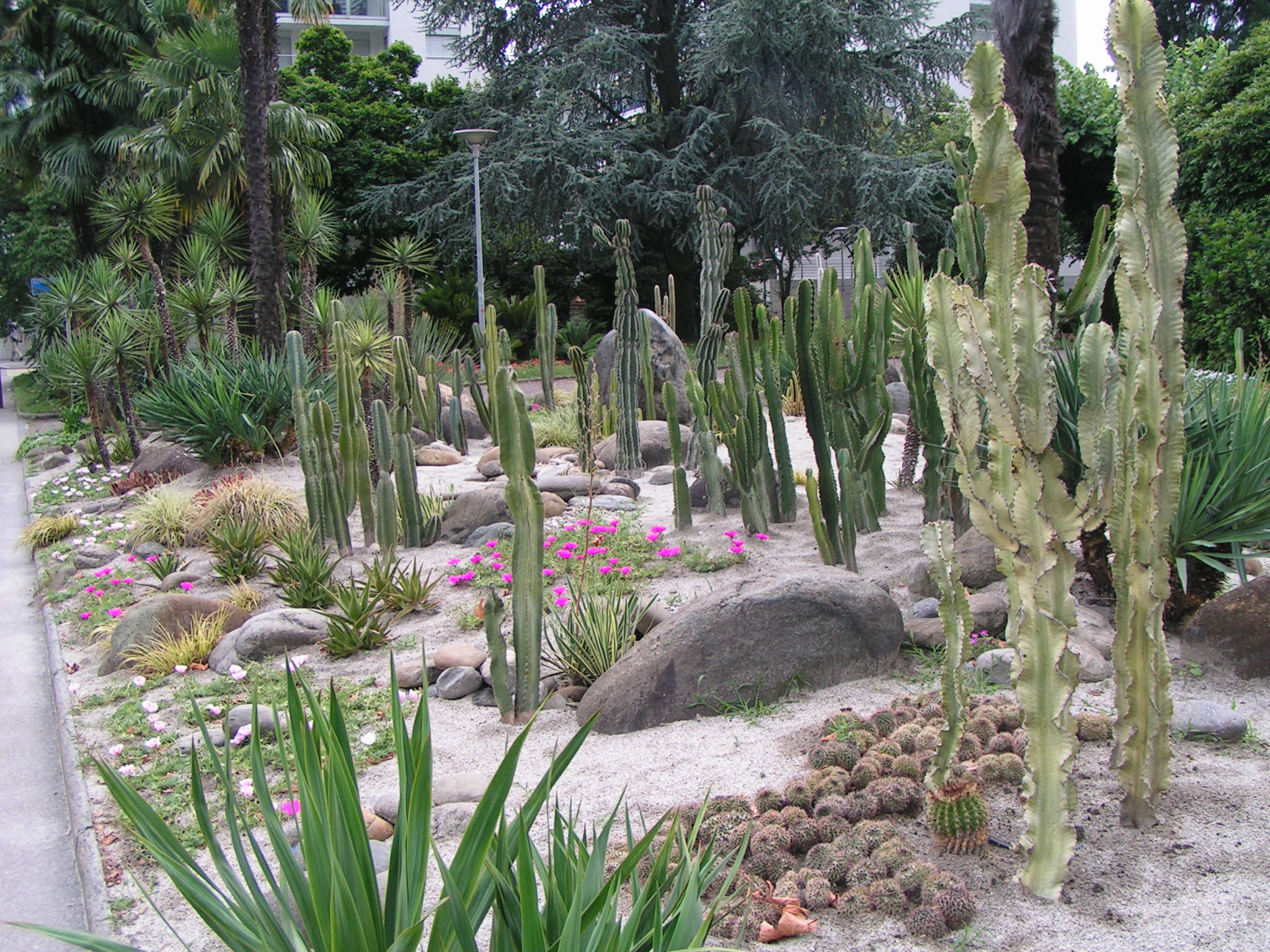 Cactus garden near Lago Maggiore in Locarno